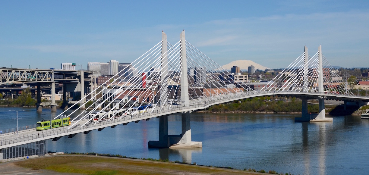 The Tilikum Crossing bridge (in Portland, Oregon) viewed from the Ross Island Bridge. A streetcar on the Portland Streetcar's A Loop service has just passed a MAX light rail train (of Type 2 and Type 1 cars) that is headed for Milwaukie on the Orange Line. Snow-covered Mt. St. Helens (53 miles/85 km away) is in the background.